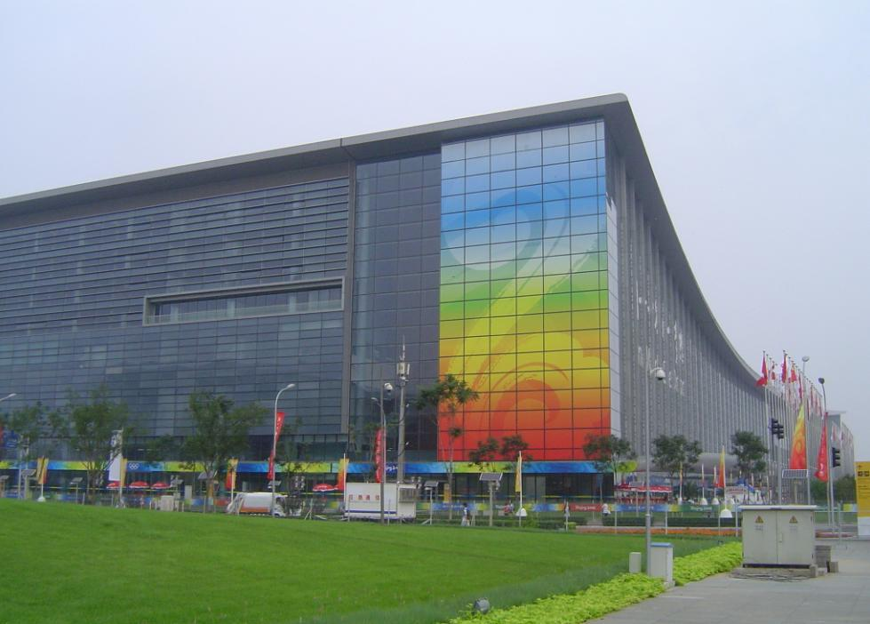 The fencing hall of the National Convention Center in Beijing.